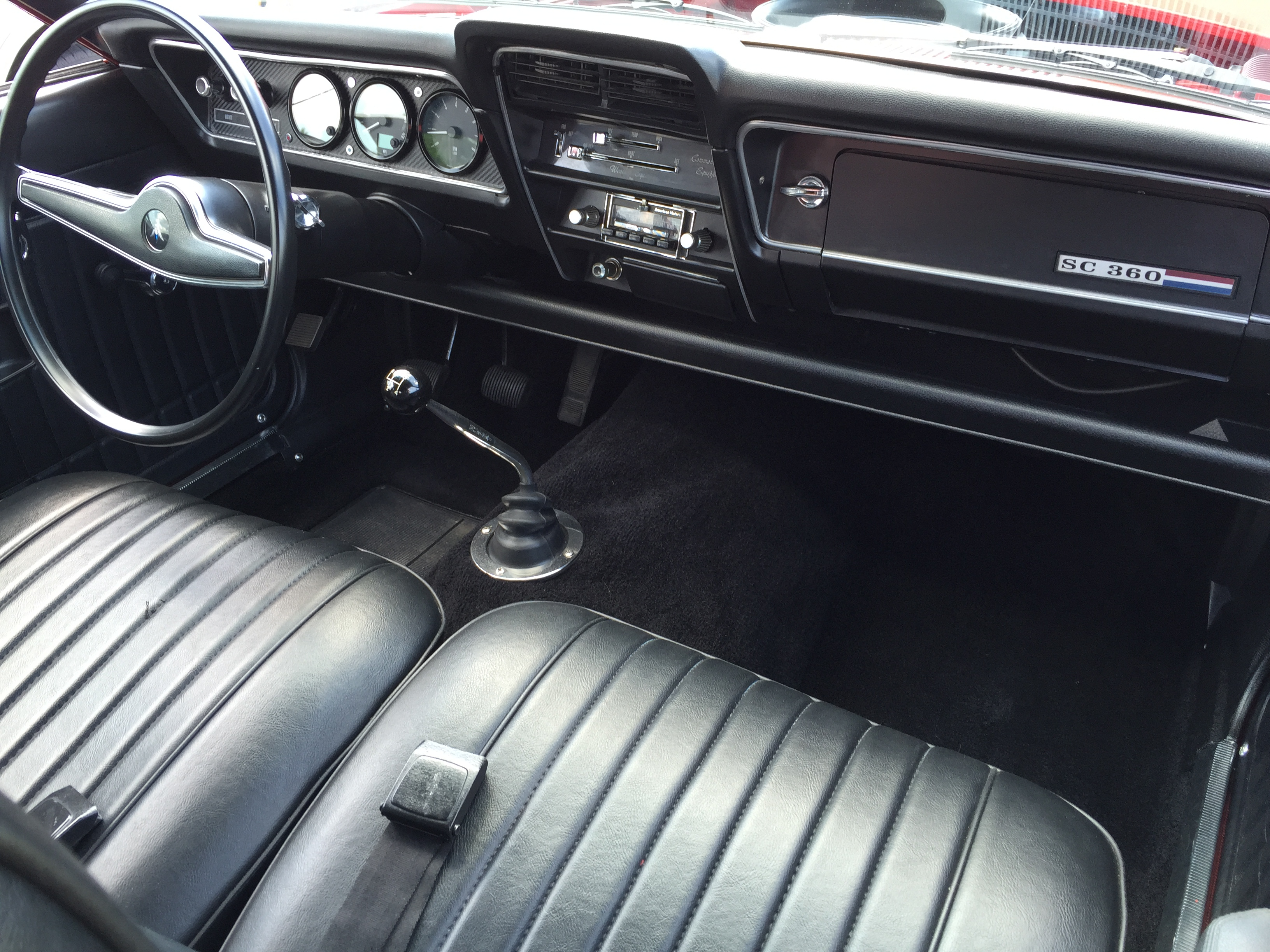 1971 AMC Hornet SC/360 built by American Motors Corporation (AMC). A compact muscle car that was only available for one model year. This one is finished in "Matador Red" (paint code) B9 with a white wrap-around exterior stripe, as well as the standard interior in black with AMC's individually adjustable reclining front seats. It has AMC's high-compression four-barrel carb 360 cu in (5.9 L) V8 engine with ram-air induction producing 285 hp, as well as a Hurst floor shift four-speed manual transmission. Other standard features included tachometer, red panel between the tail lamps, slot-style 14x6 wheels, D70x14 tires, custom steering wheel, as well as numerous performance enhancing features. This car has AMC's optional AM/FM stereo radio. Note: this car has updated instruments and indicator lights in the dash panel. Picture taken at the the car show on Saturday, July 25, 2015, during the American Motors Owners Association (AMO) annual convention that was held near Cleveland, Ohio.